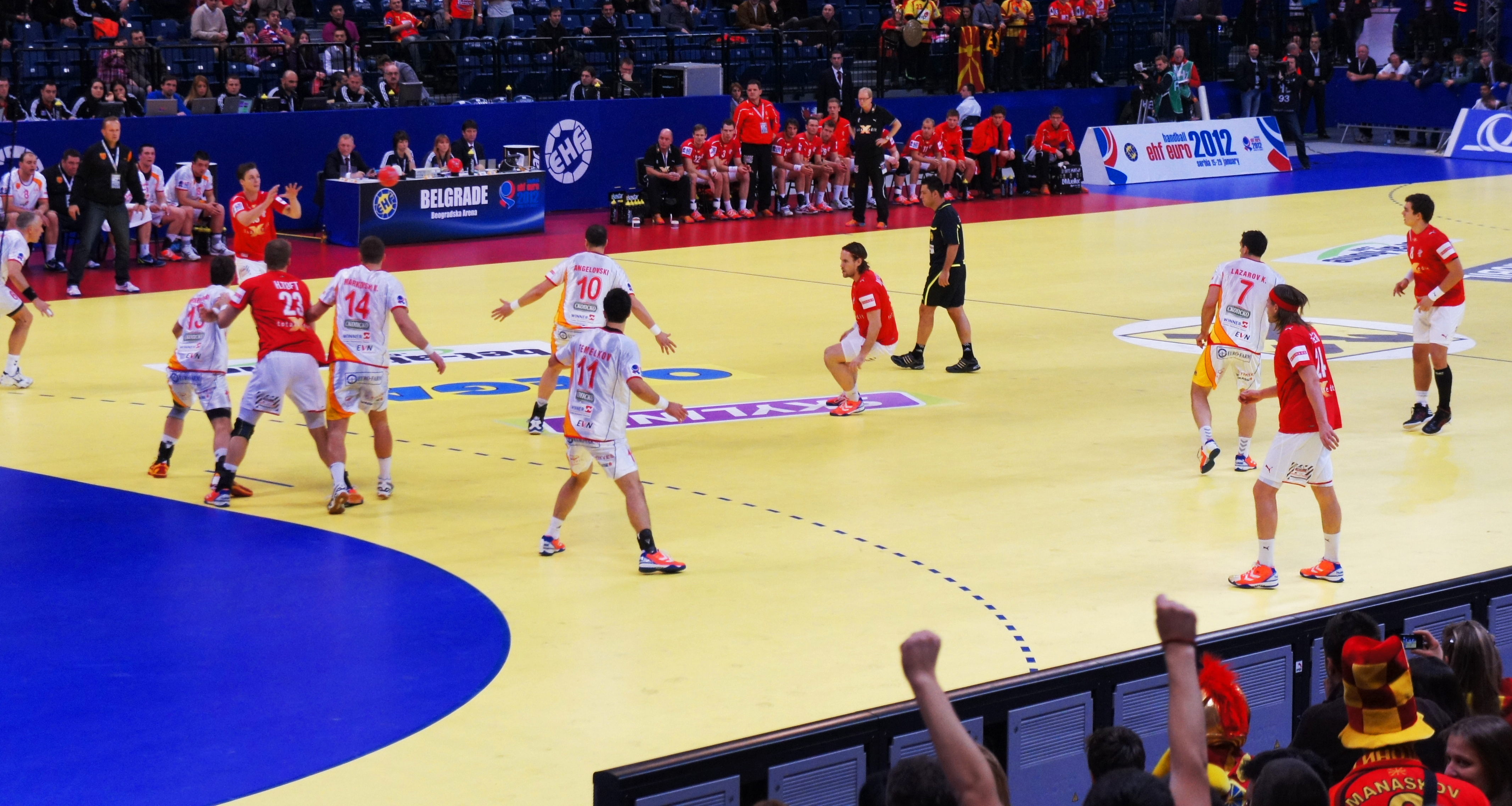 Match Macedonia vs Denmark, 2012 European Men's Handball Championship. Belgrade Arena, Serbia. Some 10.000 Macedonian fans were present on match and created magnificant and colorfull atmosphere.